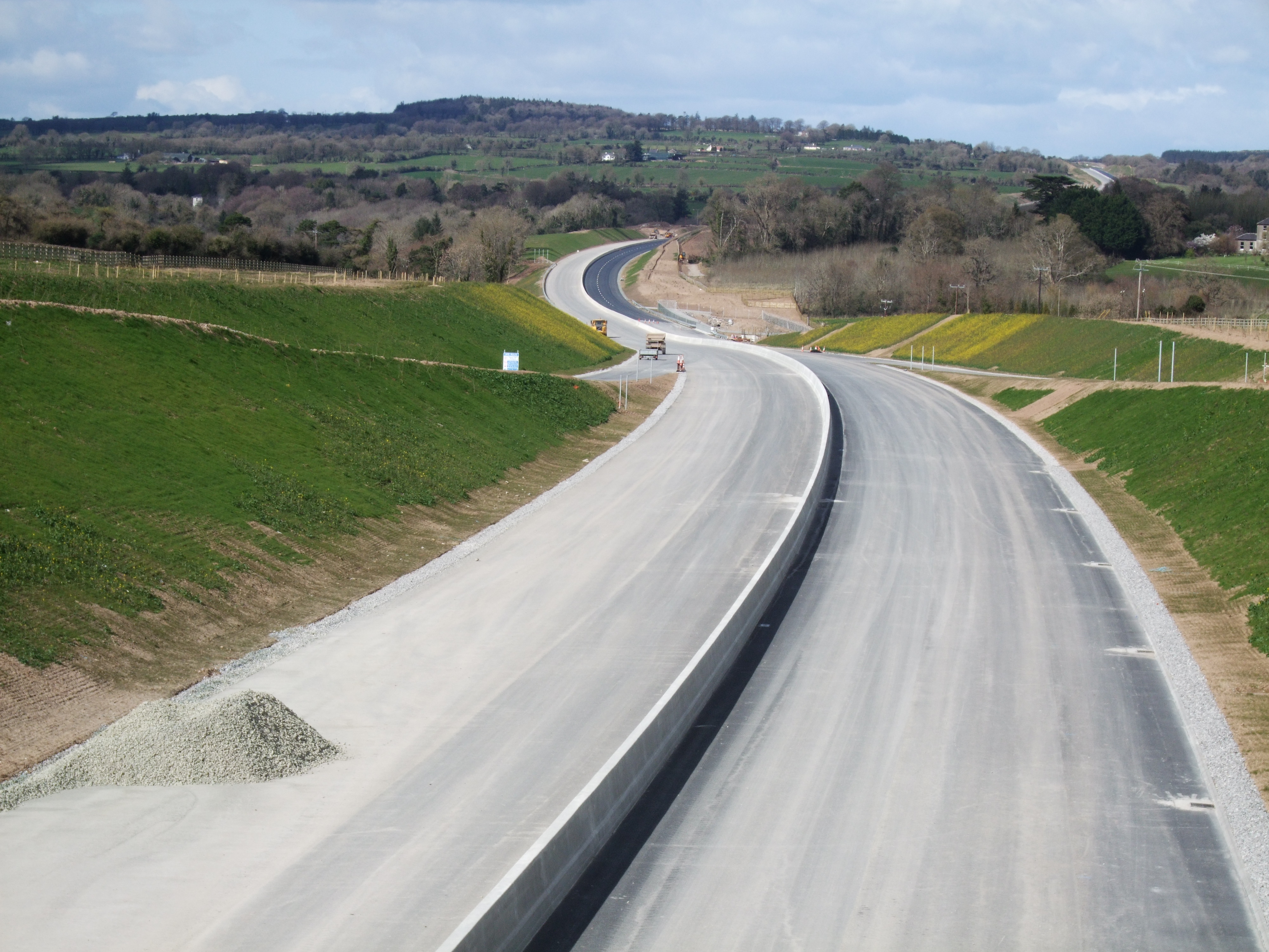 The M8 at junction 14, late March 2009.